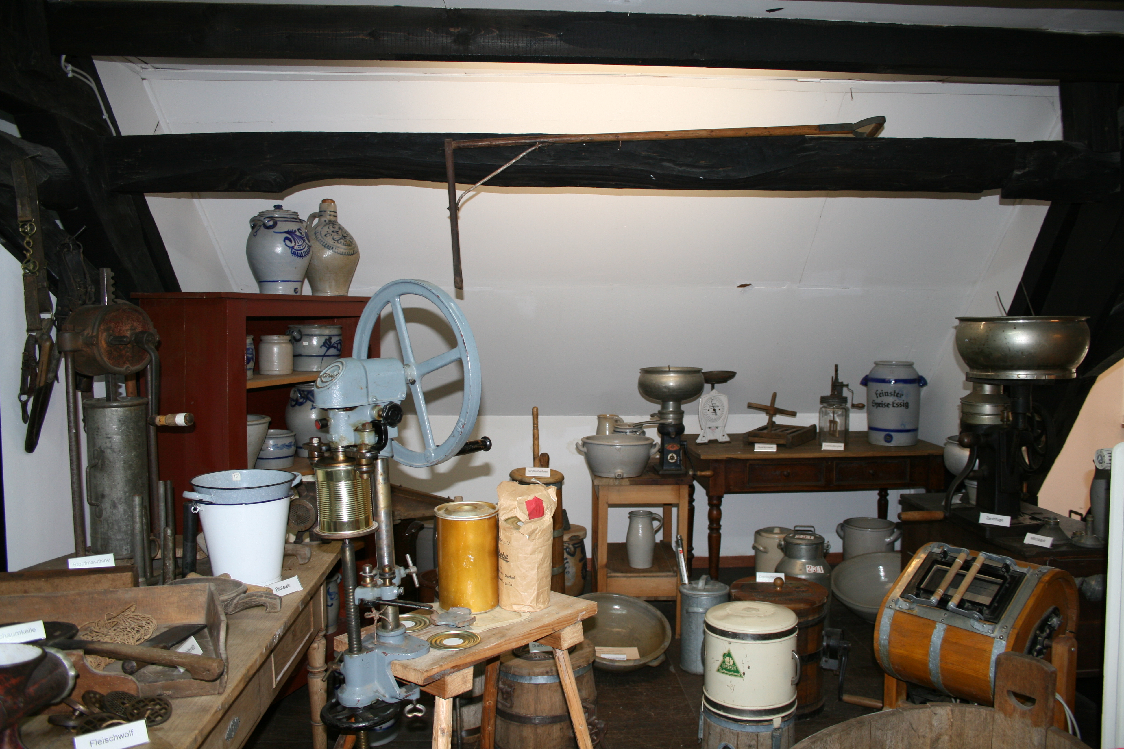 Exhibition of the local museum of Banfe (Heimatmuseum Banfetal), NRW, Germany. Heimatmuseum Banfetal LocationBanfeCoordinates50° 54′ 43″ N, 8° 21′ 00″ E Established1965